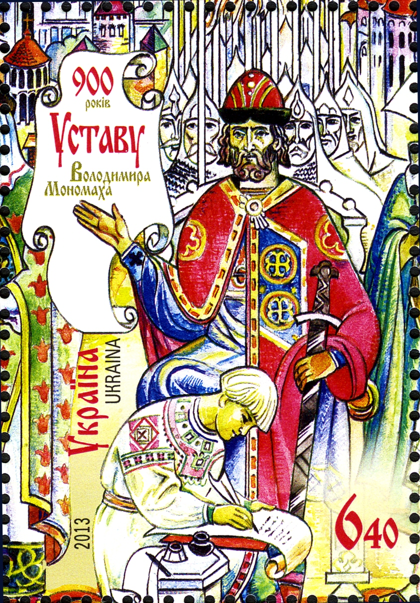 Stamps of Ukraine, 2013